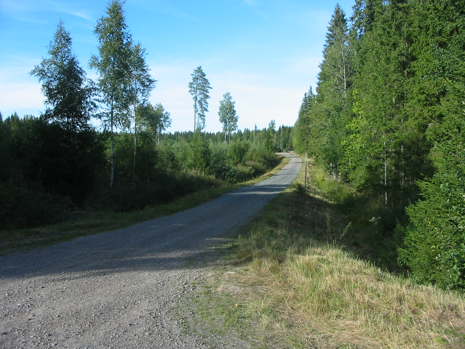 Tokimaa forest road in Eurajoki, Finland.